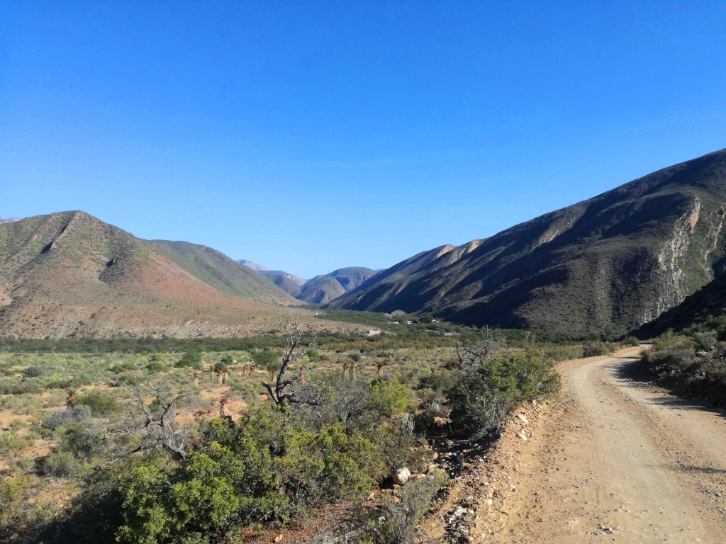 Die Hel Gamkaskloof